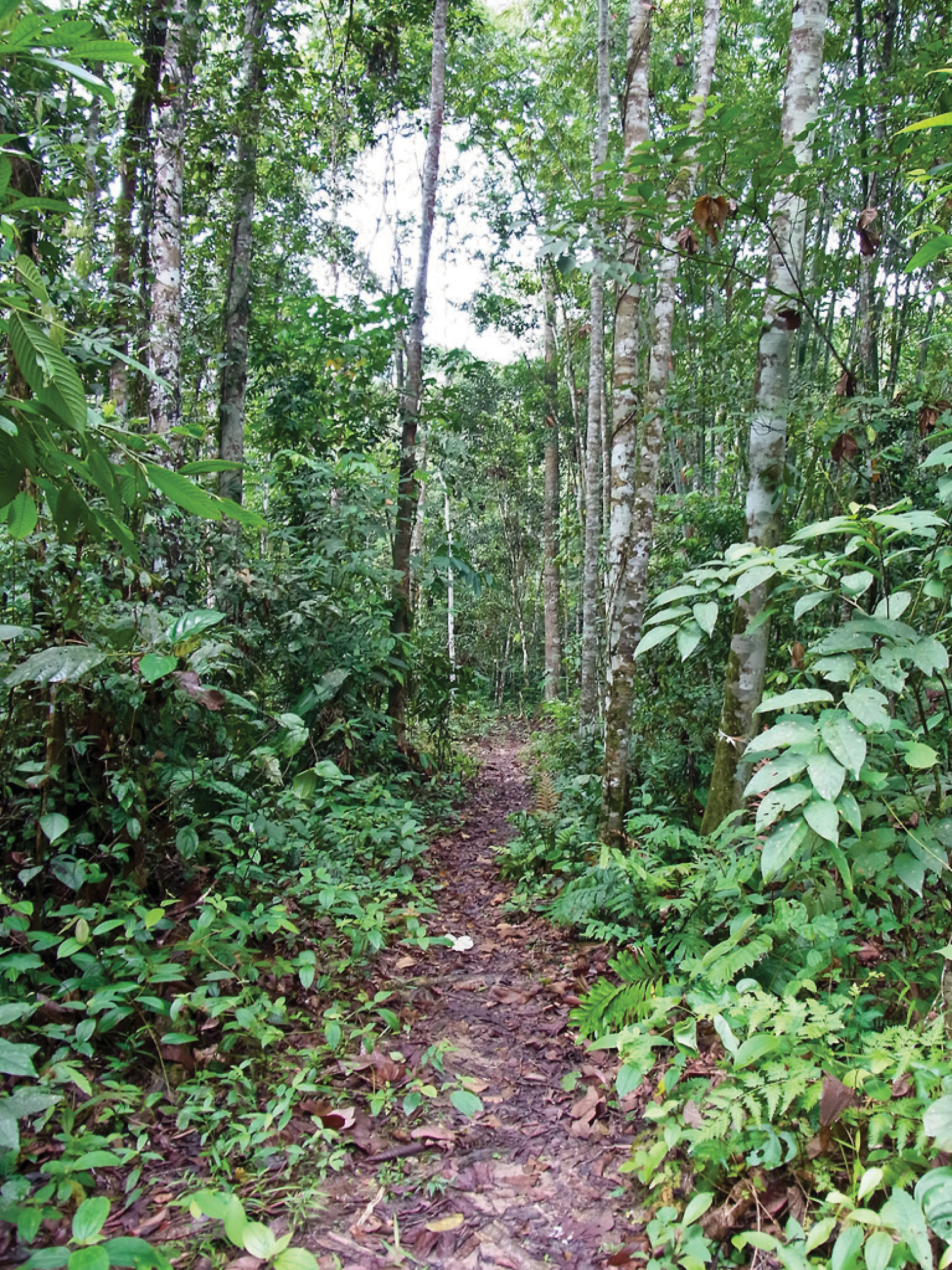 Type locality of Semachrysa jade, closed forest, 0.8 km SSW of entrance of Selangor State Park, Selangor, Malaysia (GPS: 3.3057,101.693).